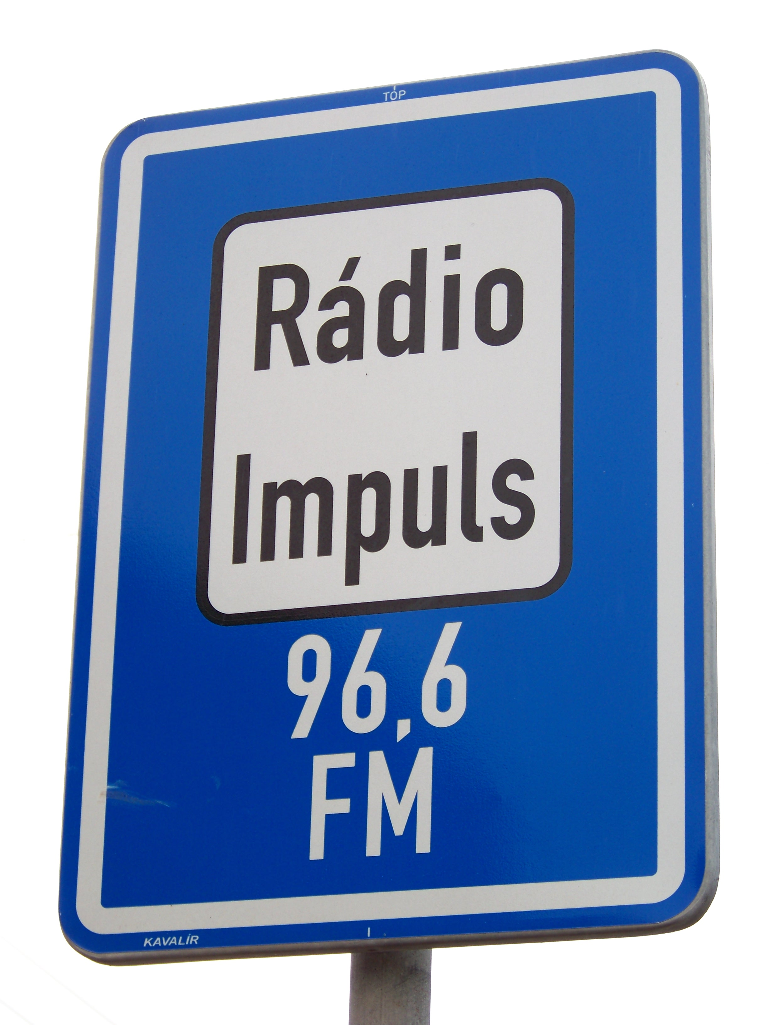 Motol, Prague, the Czech Republic. Plzeňská street, a road sign of Radio Impuls.